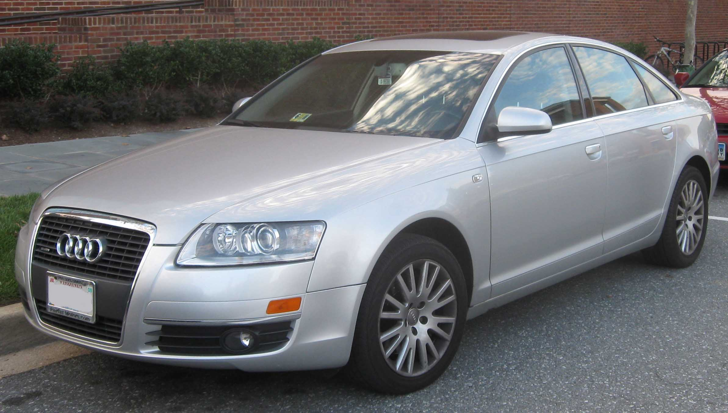 2005-2008 Audi A6 photographed in College Park, Maryland, USA.